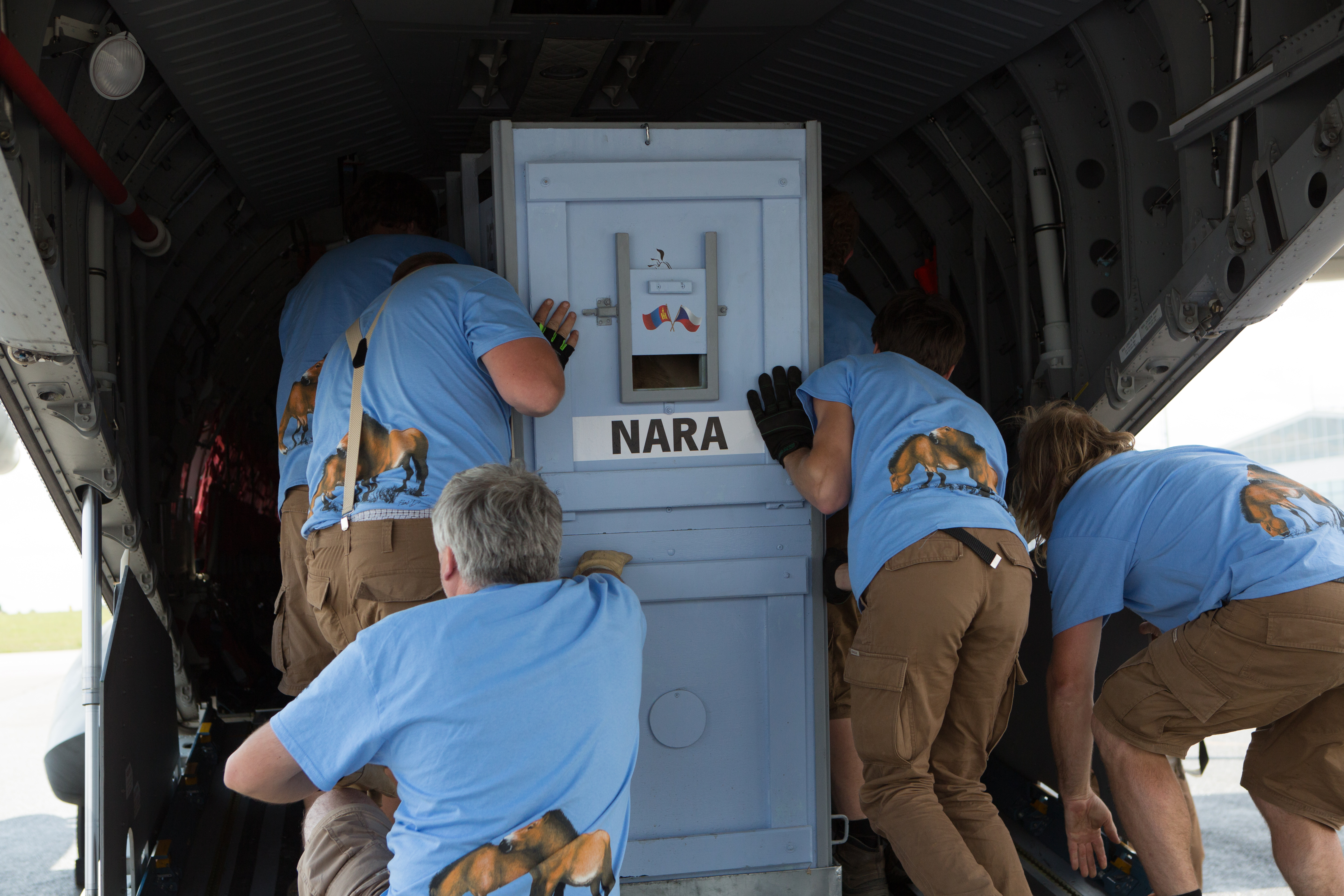 Sixth year of Return of the Wild Horses Project 3